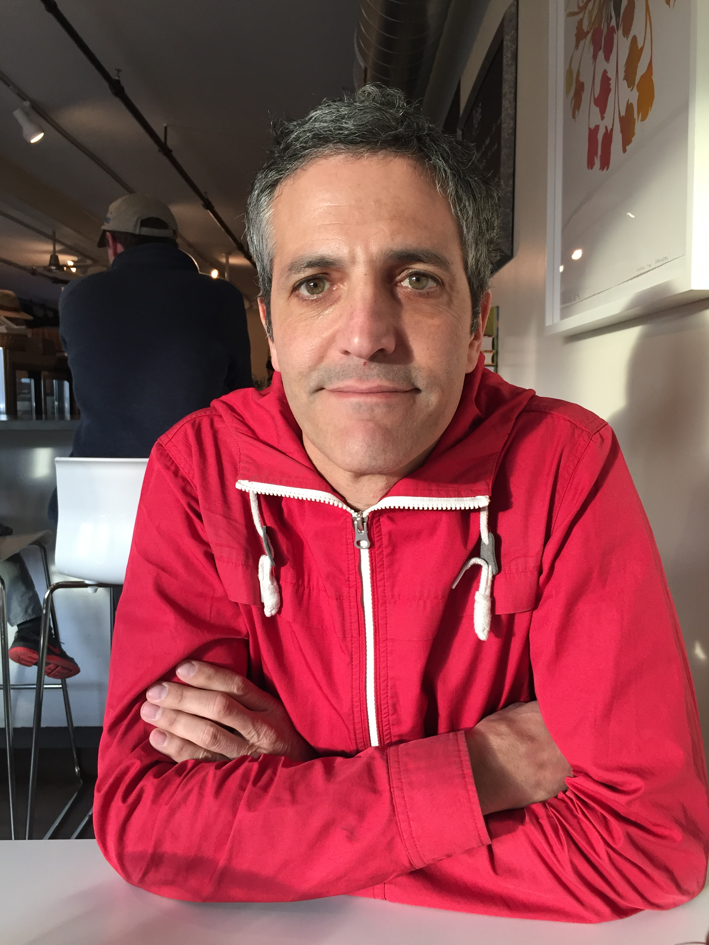 A photo of documentary filmmaker Sam Green.